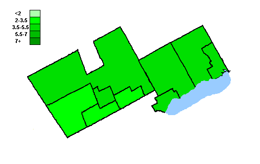 Canadian federal election results in Southern Durham and York - 2004 Green Party of Canada This image is not any copyright law whatsoever.